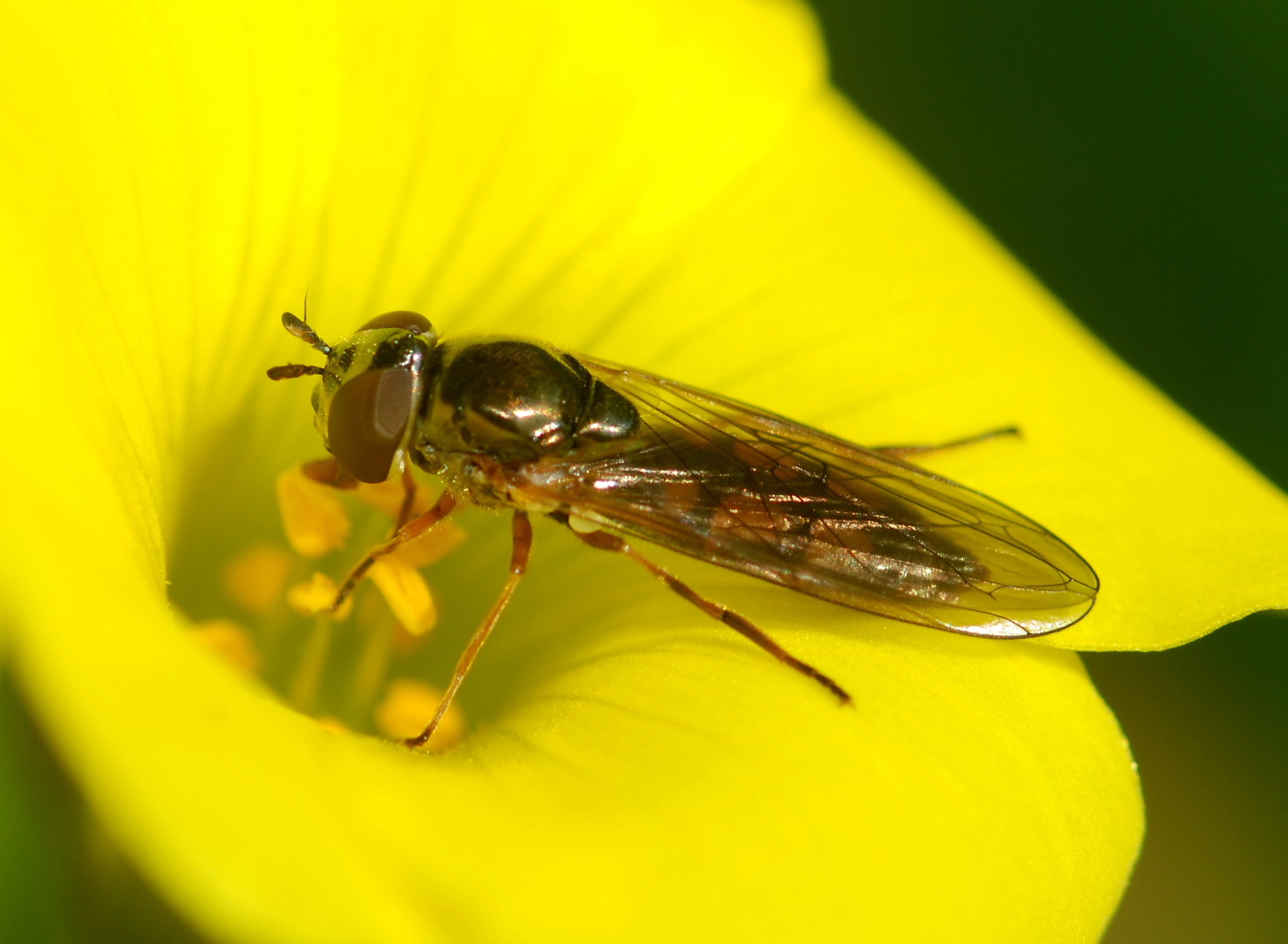 Female hoverfly: Melanostoma scalare